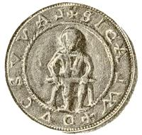 Seal of Wladyslaw Herman, likely the oldest seal of a Polish king.